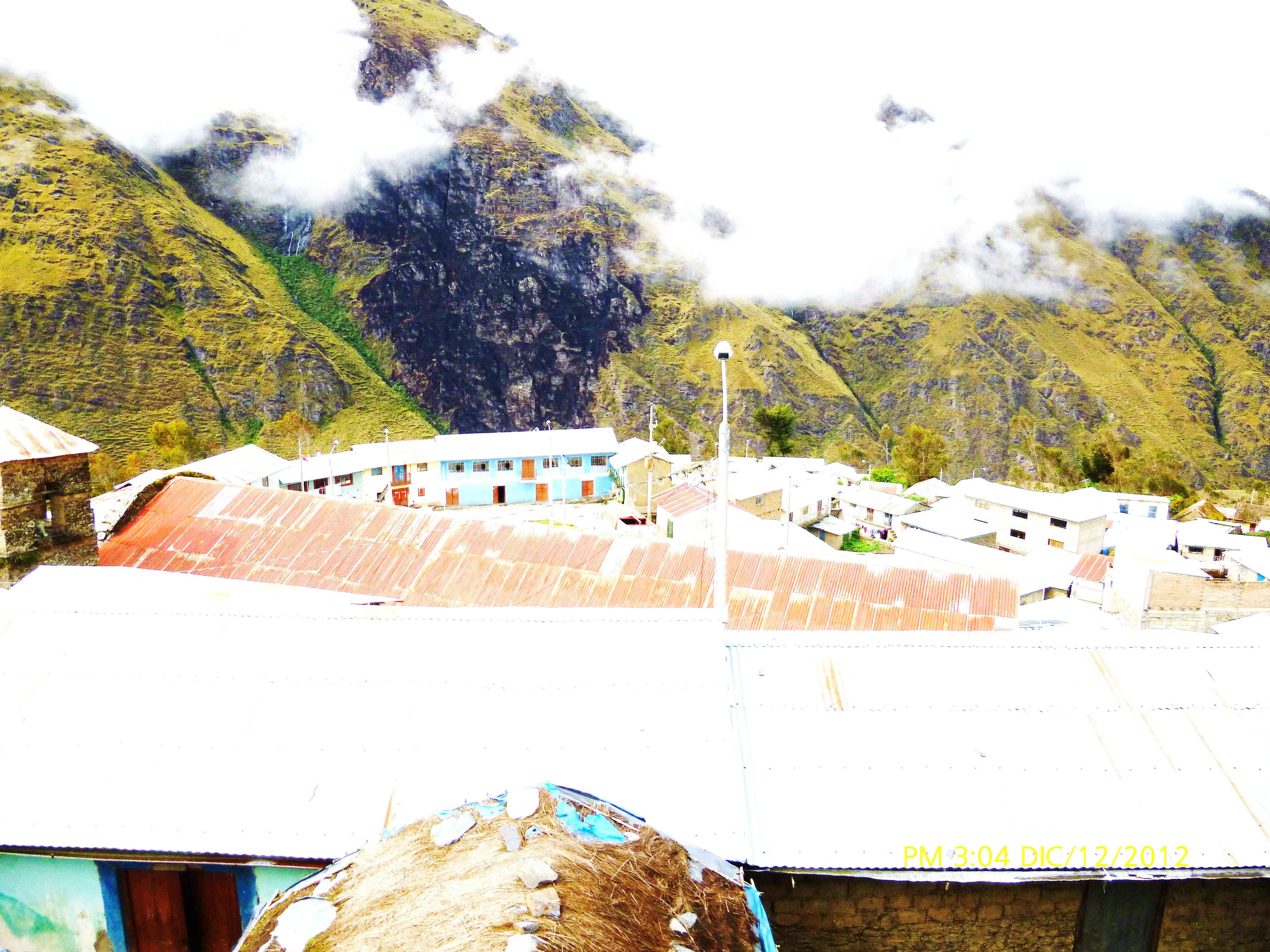 vista de pueblo patambuco con su caracteristica neblina al fondo de imagen Runa Simi: caimi patambuco llacta